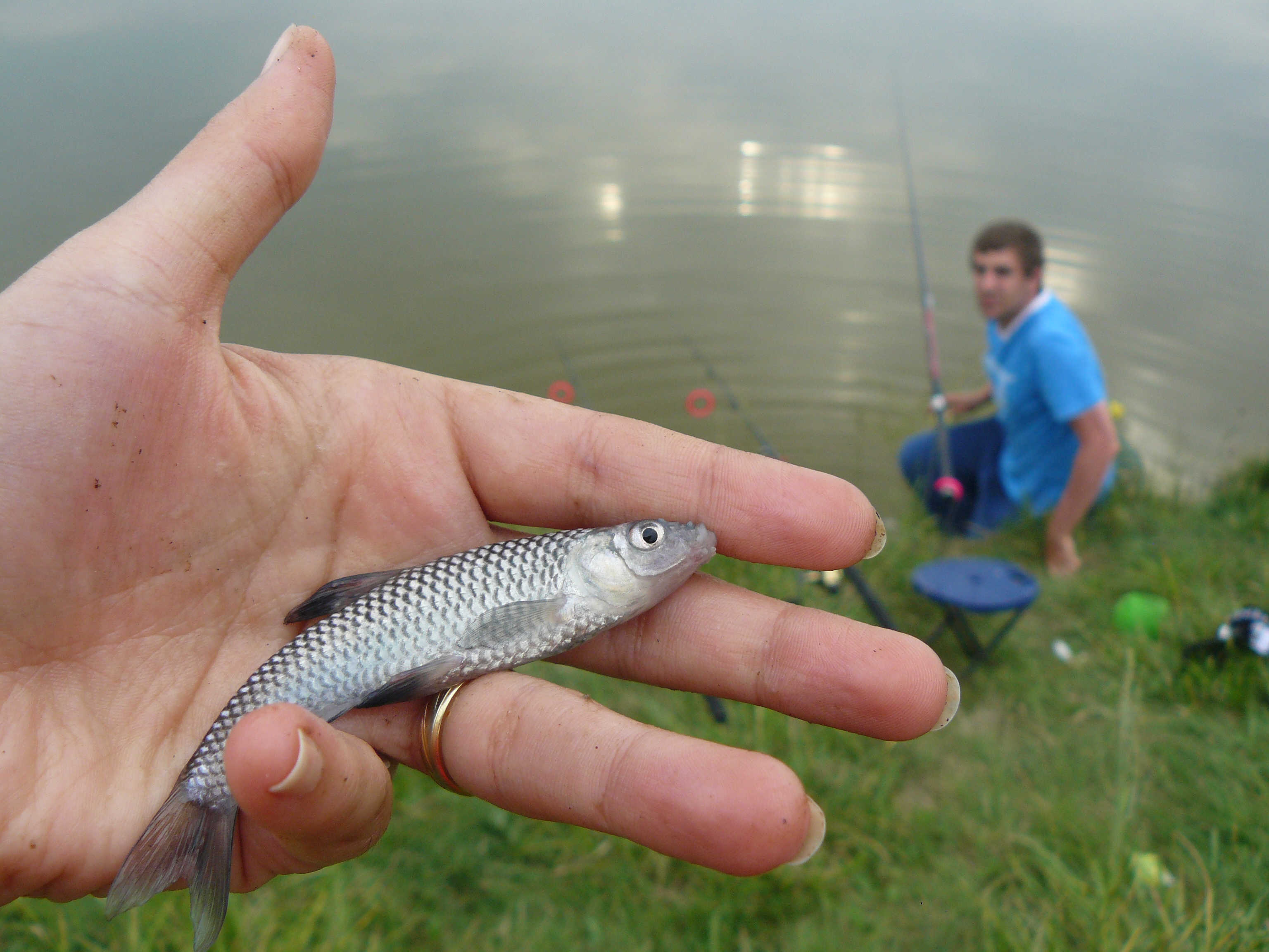 Pseudorasbora parva (Topmouth Gudgeon) caught with fishing hook in Podari Lake, Romania